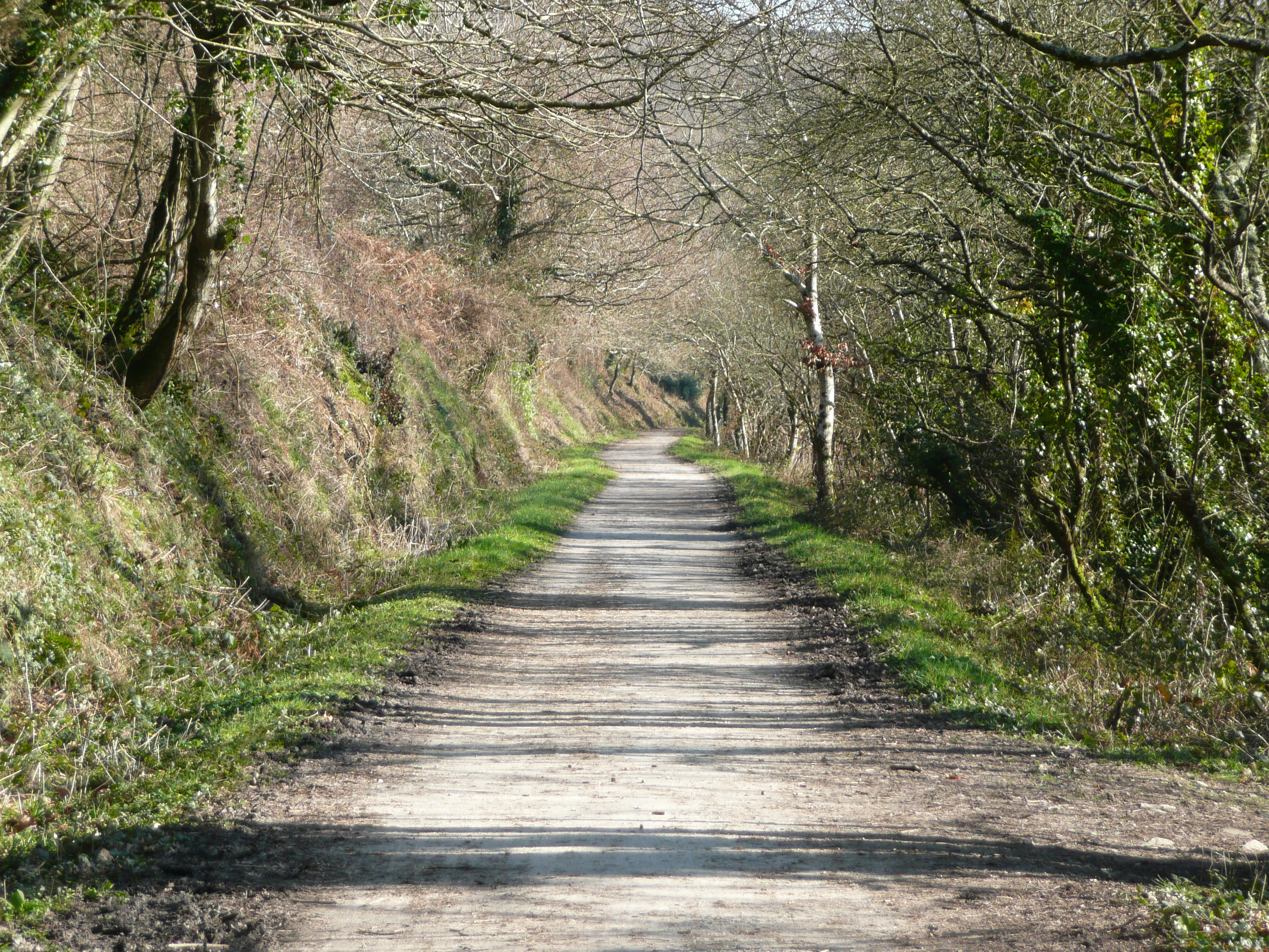 Camel Trail between Pendavey and Polbrock looking towards Bodmin